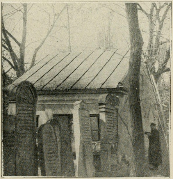 Jewish cemetery in Warsaw